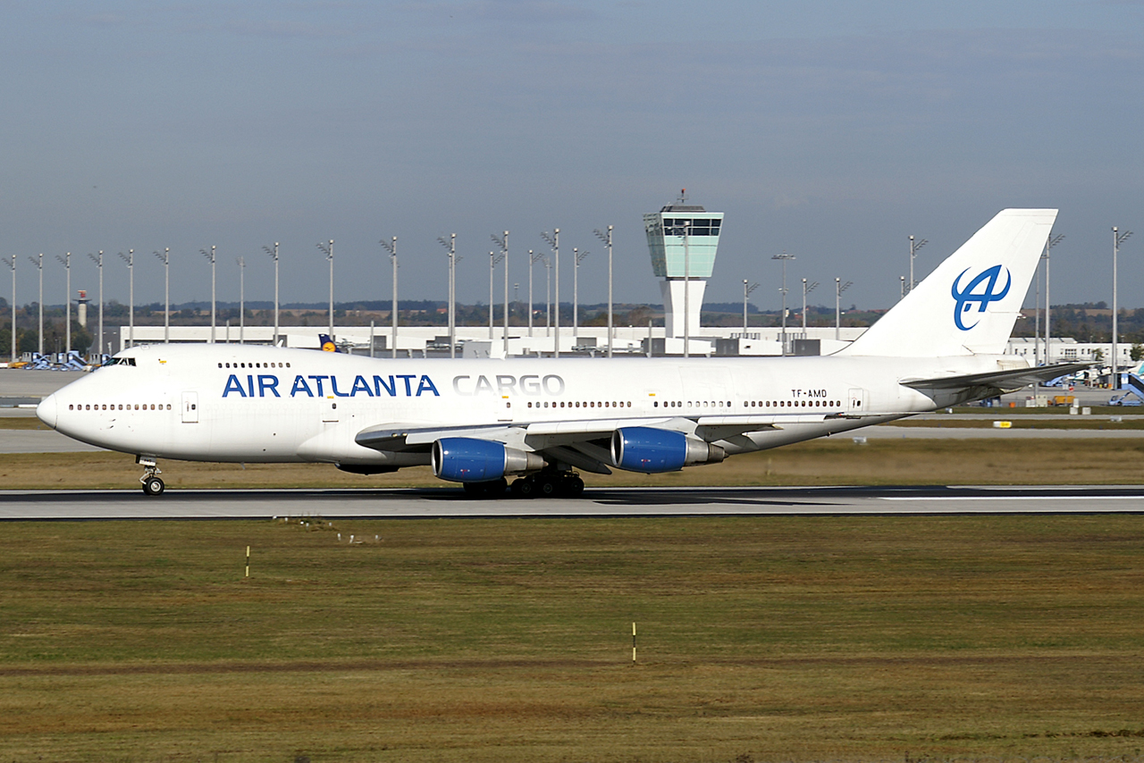 Air Atlanta Cargo Boeing 747-200 TF-AMD at Munich Airport (EDDM/MUC)